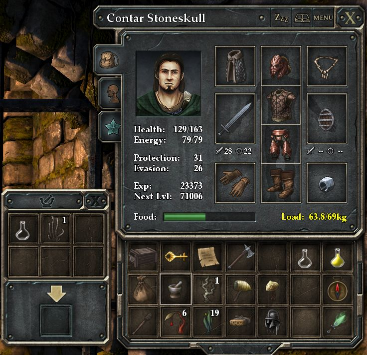 Screenshot of the dungeon crawler computer game Legend of Grimrock (2012), cropped to the character display